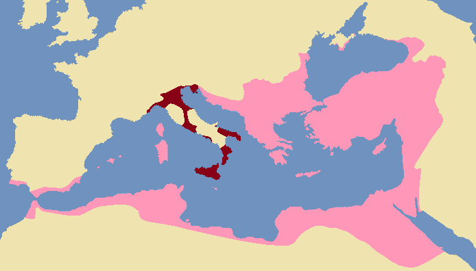 Map of the Exarchate of Ravenna within the Roman (Byzantine) Empire in 600 AD. Adapted from